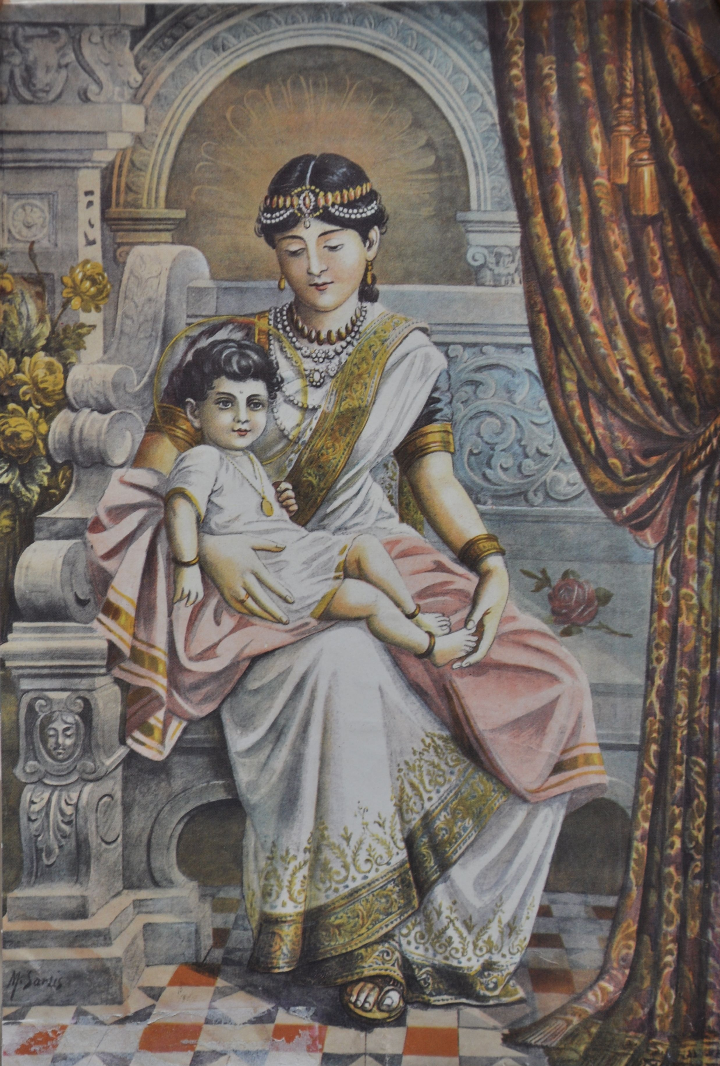 Prince Siddhartha with his maternal aunt Queen Mahaprajapati Gotami. සිංහල: සිදුහත් කුමරු සහ මහා ප්‍රජාපති ගොතමිය.